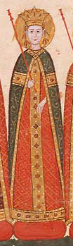 Keratsa of Bulgaria, Empress-consort of Byzantium, miniature from the Tetraevangelia of Ivan Alexander.